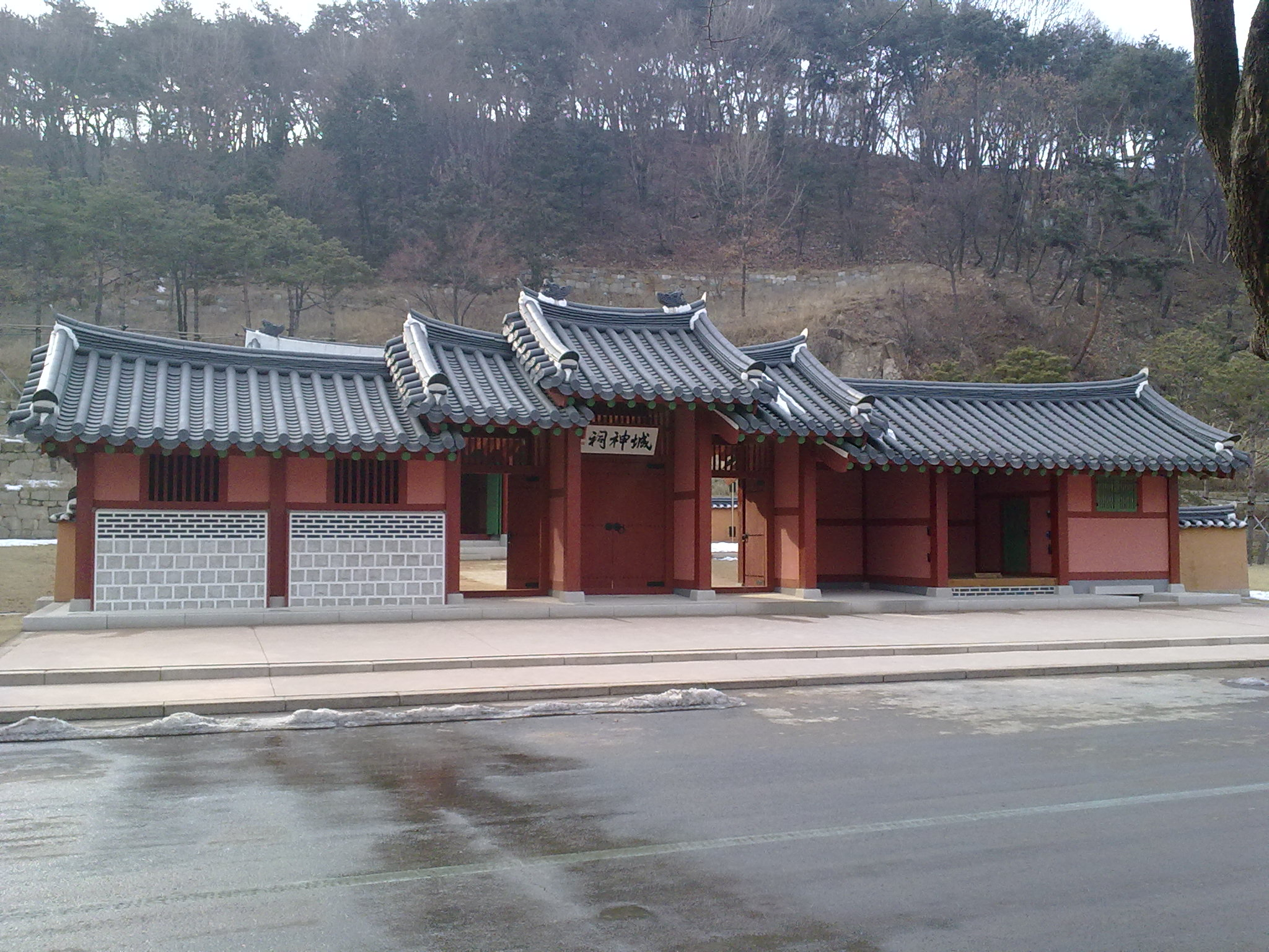 Seongsinsa, Temple in Hwaseong Fortress